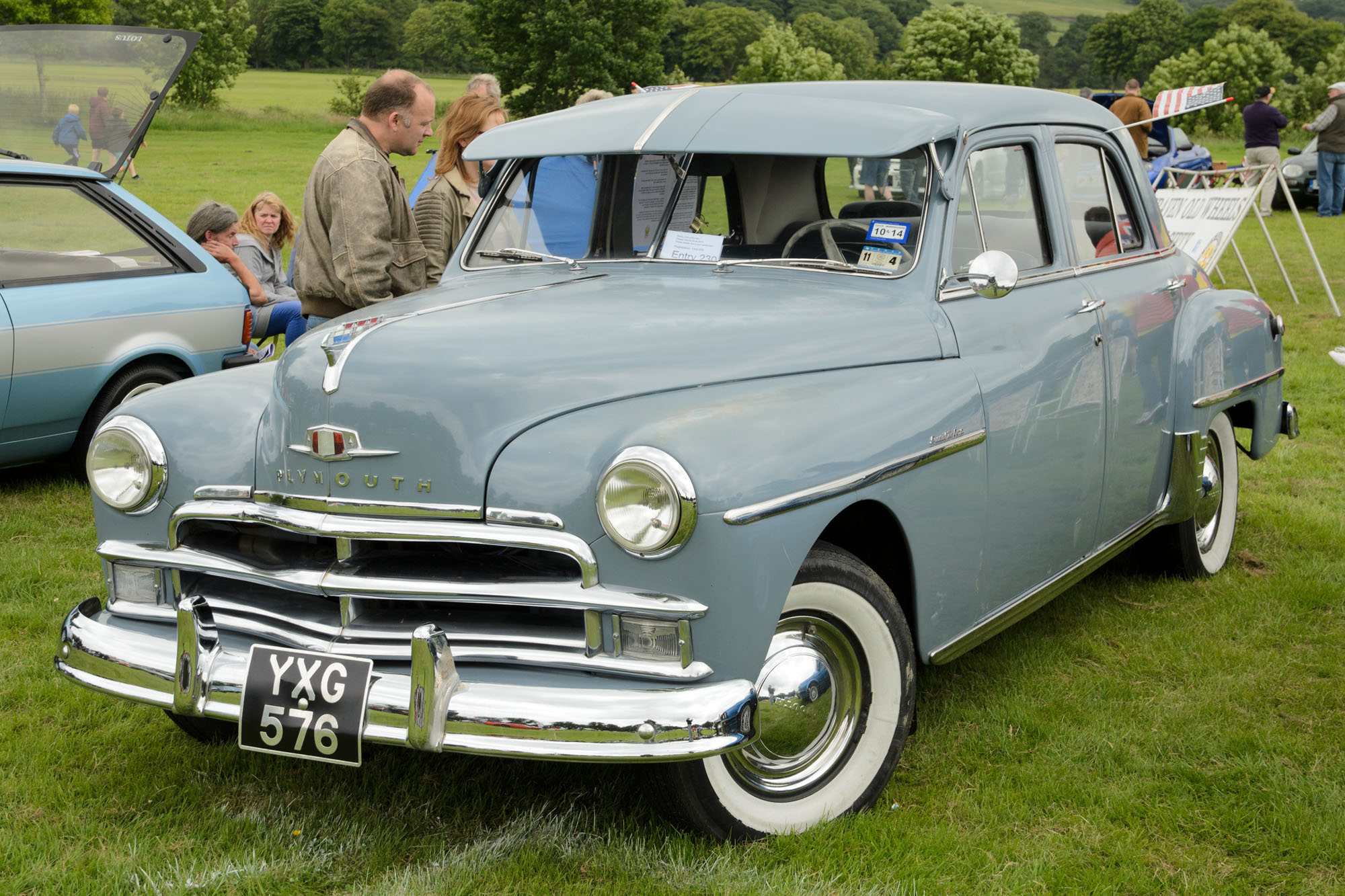 Burnley Classic Car Show 26/06/2016